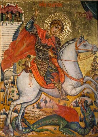 Saint George Icon from Strandzha